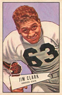 American football player Jim Clark (American football) on a 1952 Bowman Large card.